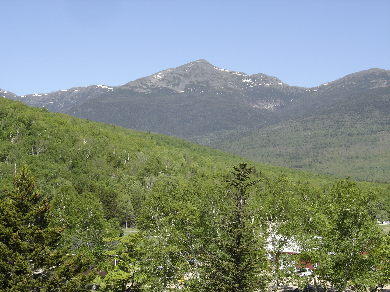 Image of East elevation of Mt. Madison from NH Route 16